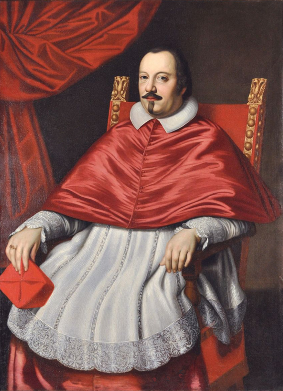 Cardinal Pietro Ottoboni, future Pope Alexander VIII (1610-1691)